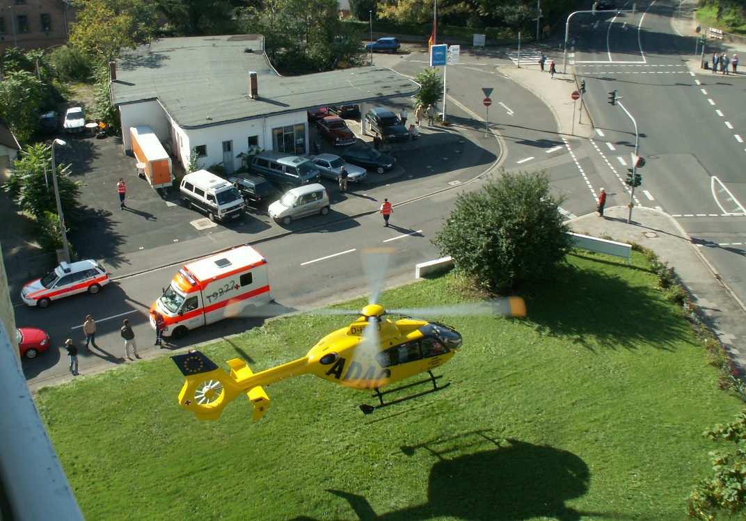 Rendezvous-System; German Helicopter D-HJMD "Christoph 5" with Ambulance